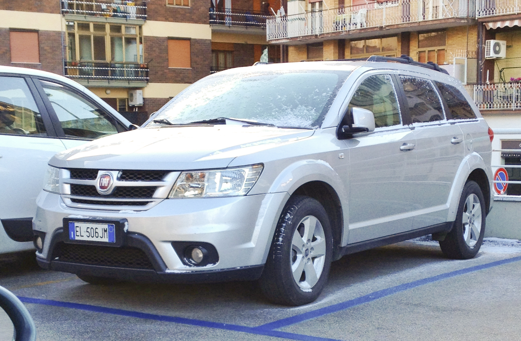 Fiat Freemont 2.0 Multijet